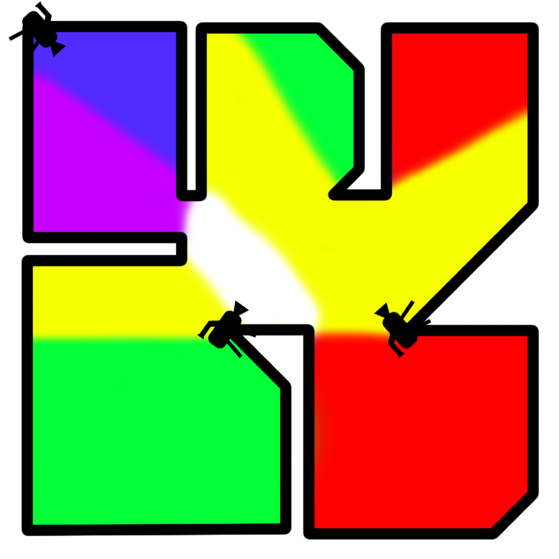 Red green blue